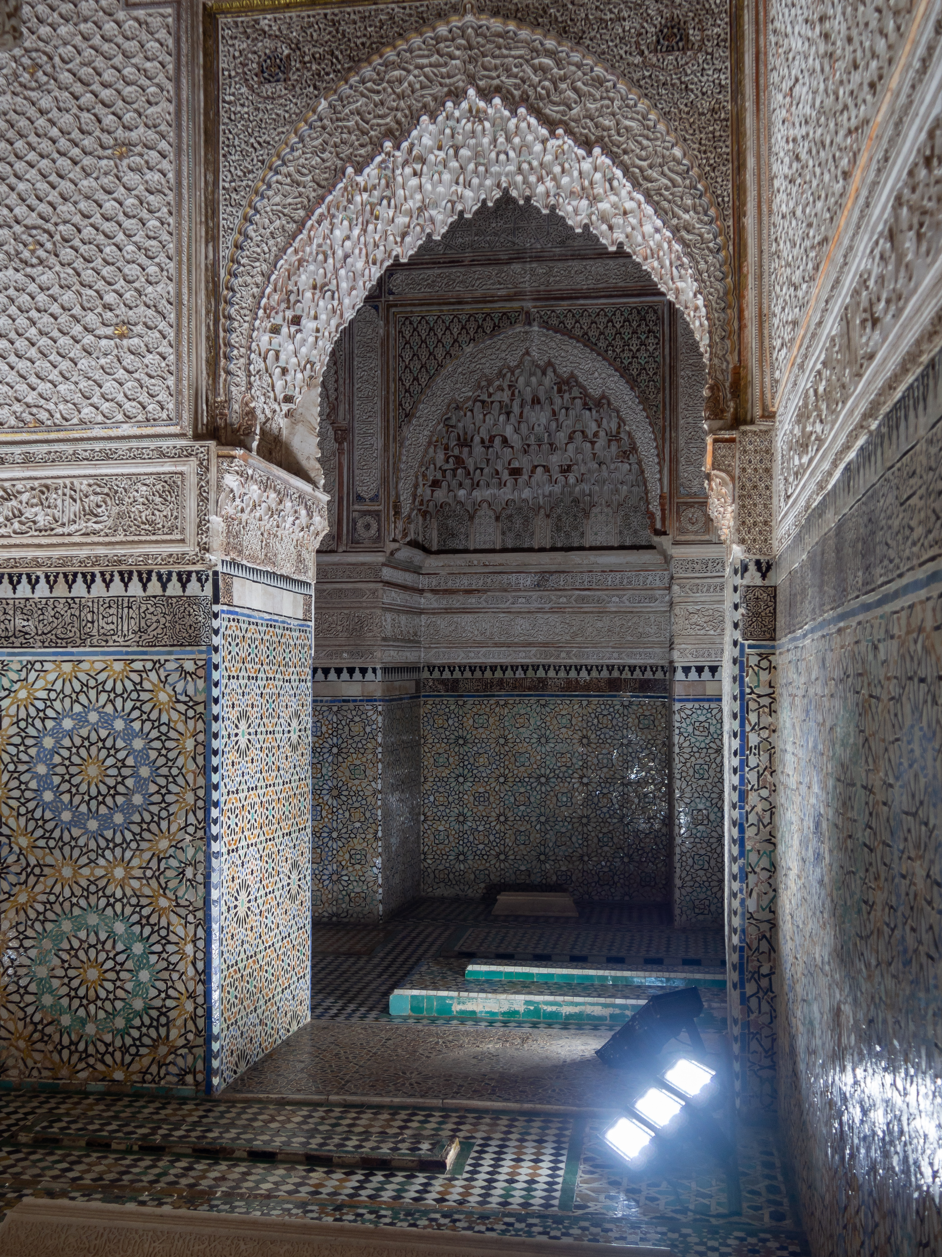 Saadian Tombs